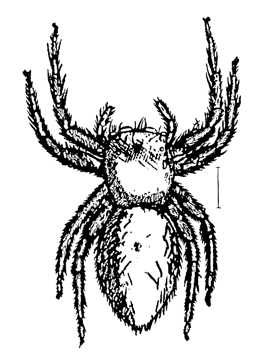 Carrhotus sannio female from Workman, 1896. Specimen from Pinang, Malaysia.